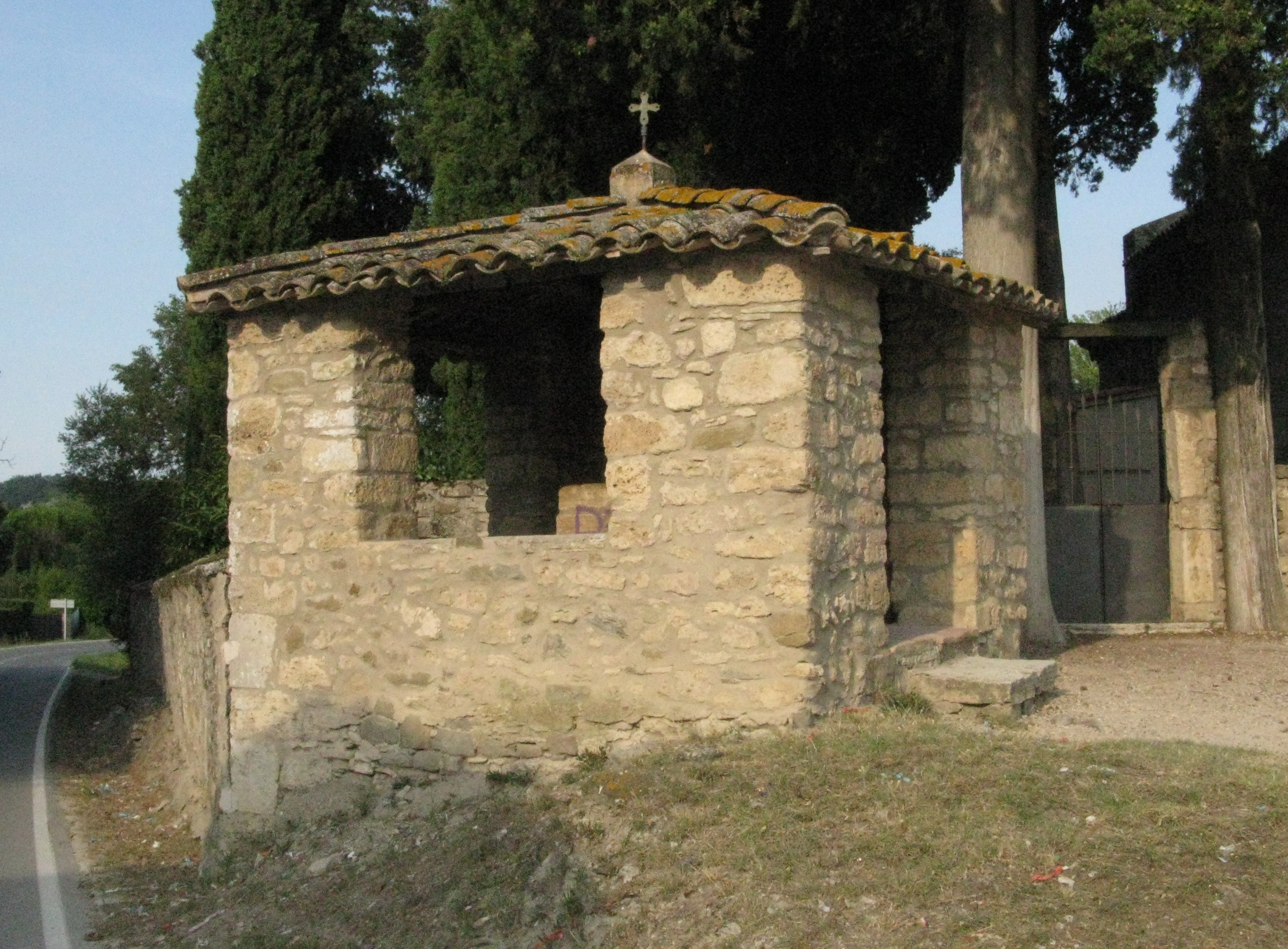 The Comunidor (known also as a reliquier) of the romanesque church Santa Maria de Porqueres, Catalonia